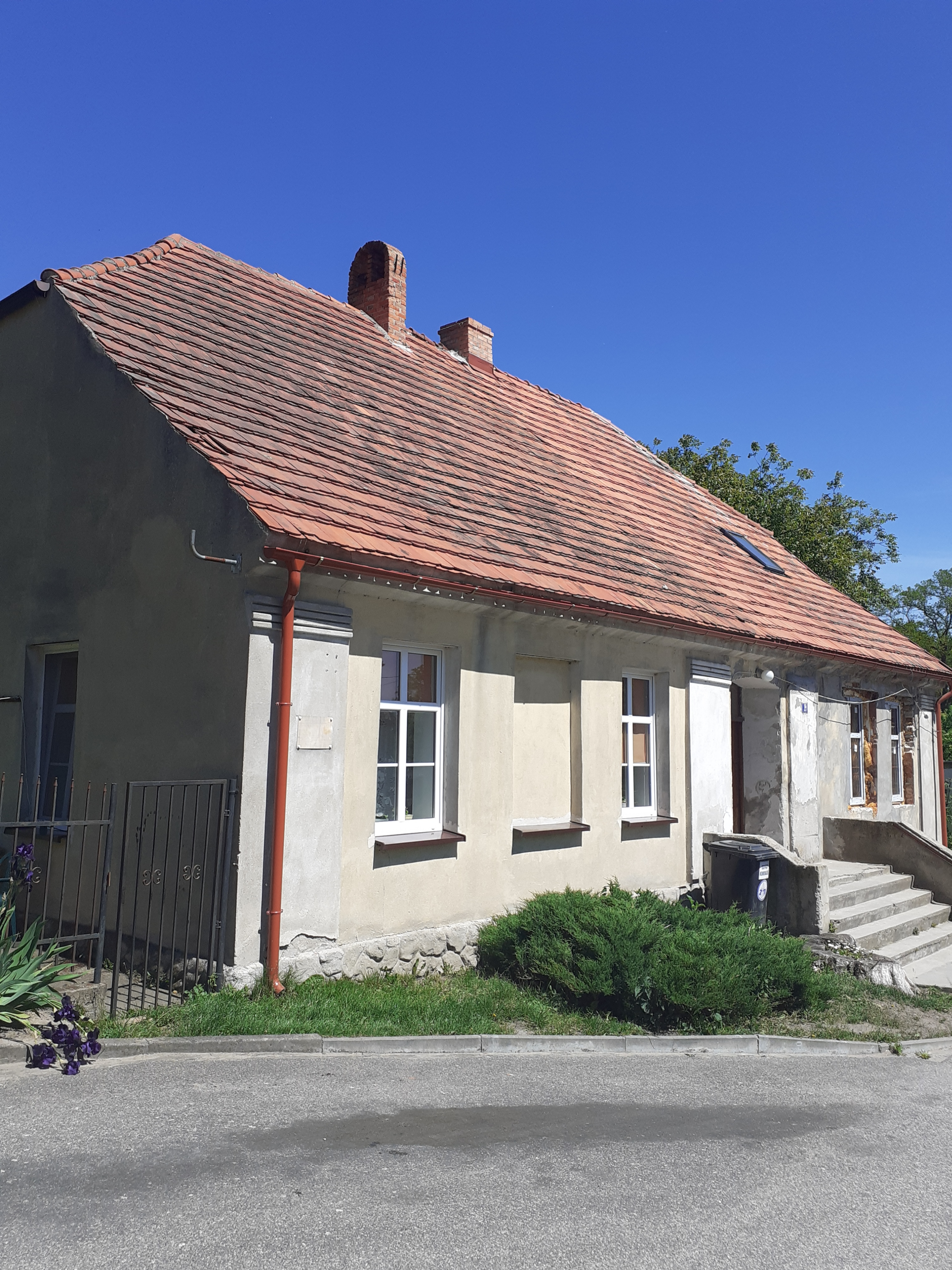 Wabcz Budynek starej karczmy